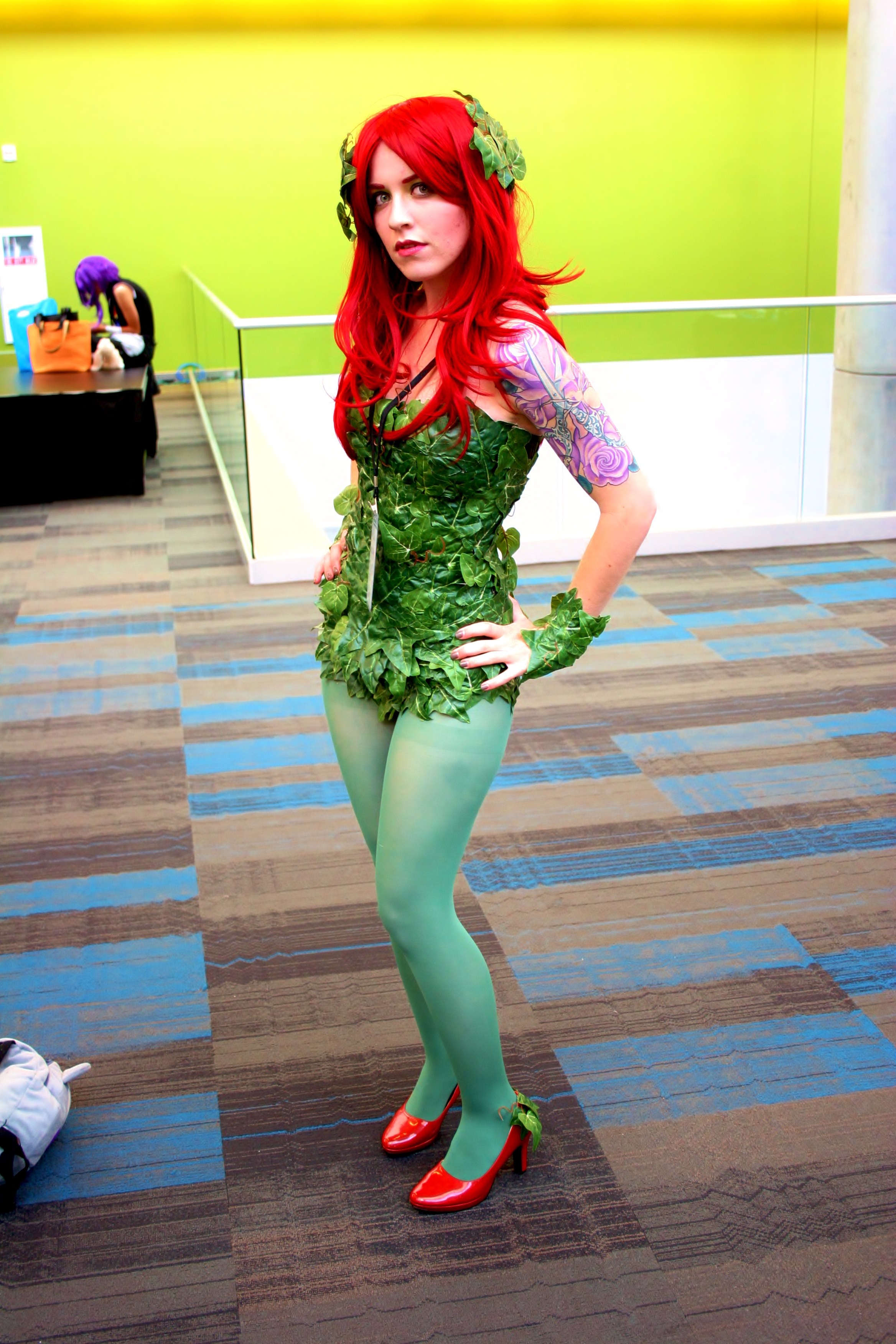 gothamcitysirens